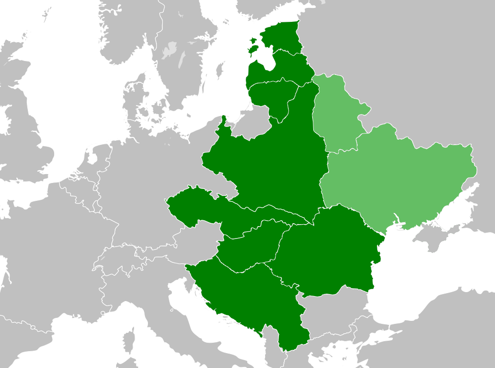 The Intermarium (Polish: Międzymorze) was a proposed federation in Central Europe by Józef Piłsudski. Lands shown in light green were incorporated into the Soviet Union in 1922.